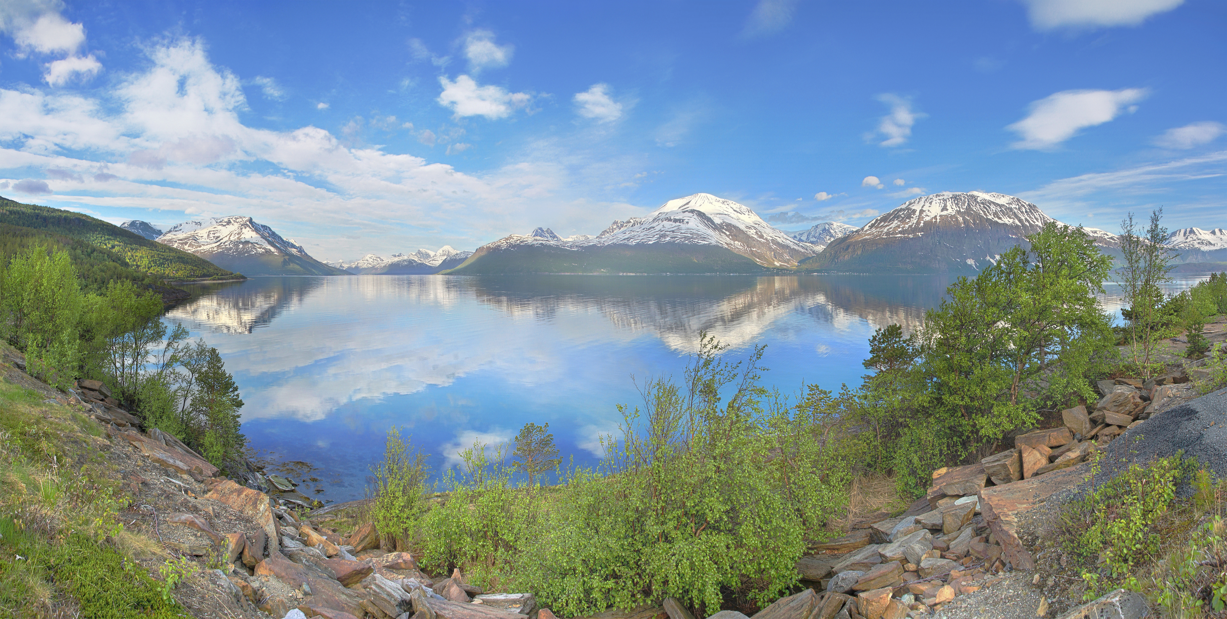 A view to Lyngenfjorden from the east coast in morning in 2011 June.